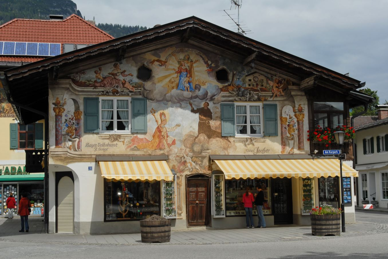 Garmisch-Partenkirchen, shopping street "am Kurpark"